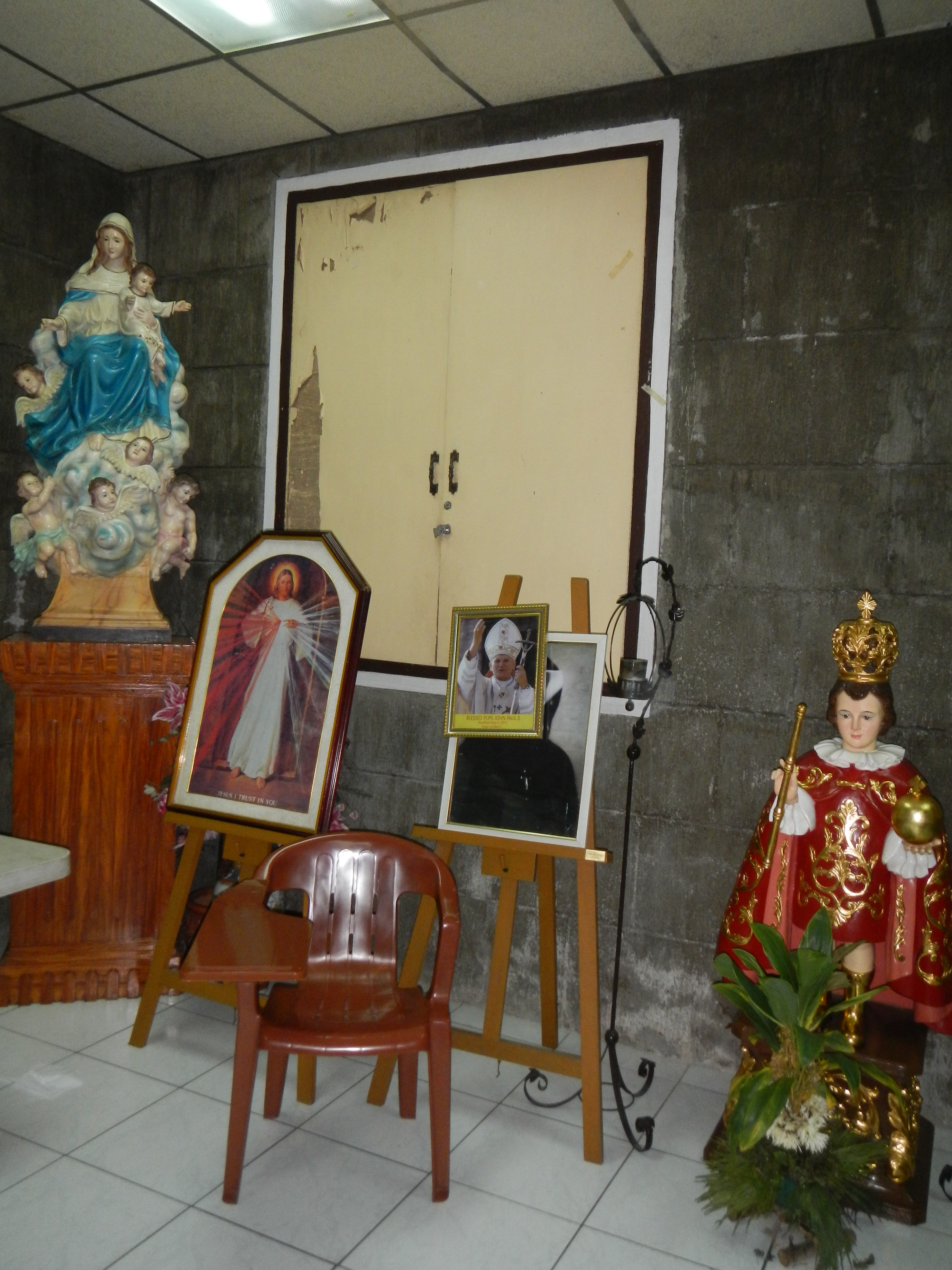 Santuario de San Pedro Bautista[1] (or Church of San Francisco Del Monte - formerly named San Pedro Bautista Parish), stands on holy ground because of its Patron Saint, San Pedro Bautista[2], lived out his vocation, re-energized his missionary calling and prayed for God's people here. It is the second oldest church in the Philippines. The parish belongs to the Diocese of Cubao[3]under the Vicariate of San Pedro Bautista. It is also under the care of Order of Friars Minor (OFM, aka Franciscans), from the Franciscan Province of San Pedro Bautista.Santuario de San Pedro Bautista covers six barangays, namely: Damayan, Del Monte, Mariblo, Paraiso, Sta. Cruz, and Talayan. Pat Senador St. (West Bound), Quezon Avenue (East Bound) Araneta Avenue (South Bound) Judge Juan Luna Street (North Bound) Address: #69 San Pedro Bautista St., SFDM, Quezon City November 11, 1932 Feast Day: Nearest Sunday to February 5 Coordinates: 14°38'15"N 121°0'45"E[4] THE PASTORS Fr. Carlos S. Santos,OFM - Parish Priest / Prov. Secretary for Missionary Evangelization Fr. Rolie G. Pimentero, OFM - Parochial Vicar Fr. Baltazar A. Obico, OFM - Provincial Vicar / Parochial Vicar Fr. Angelito A. Salazar, OFM - Postulancy Director / Parochial Vicar Fr. Mario D. Evangelista, OFM - Parochial Vicar Fr. Jerome C. Angulo, OFM - Guardian / Provincial Secretary / Parochial Vicar Bro. Ariel Manga, OFM - Procurator Twenty-six Martyrs of Japan [5] (日本二十六聖人 Nihon Nijūroku Seijin?) refers to a group of Christians who were executed by crucifixion on February 5, 1597 at Nagasaki. Their martyrdom is especially significant in the history of Roman Catholicism in Japan Saint Pedro Bautista or Saint Peter Baptist – He was a Spanish Franciscan who had worked about ten years in the Philippines before coming to Japan. St. Peter was a companion of St. Paul Miki when Christianity was made illegal.[6]